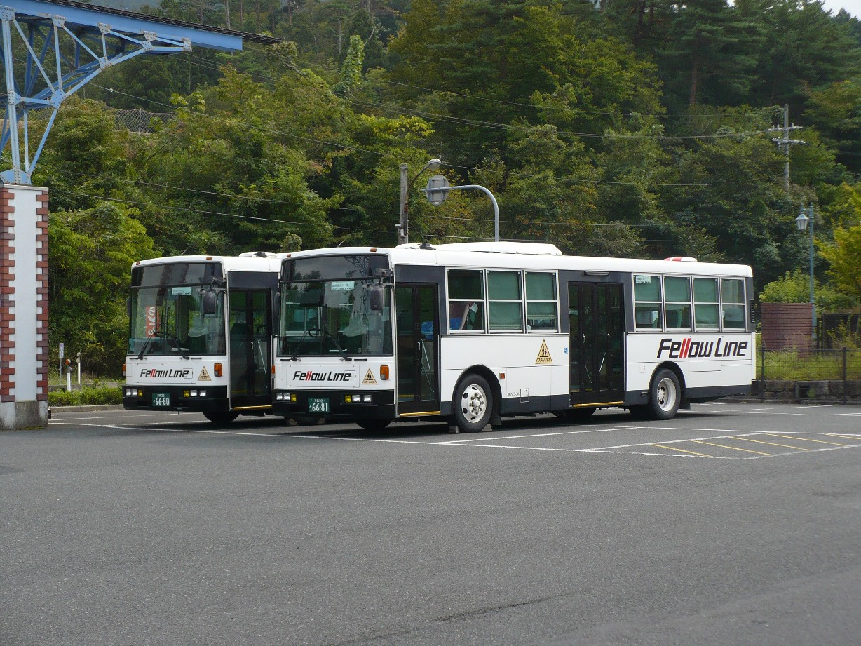 School buses operated by Kaya Fellow Line, which are parking in front of Kaya Steam Locomotive Square. Yosano town, Kyoto prefecture Japan